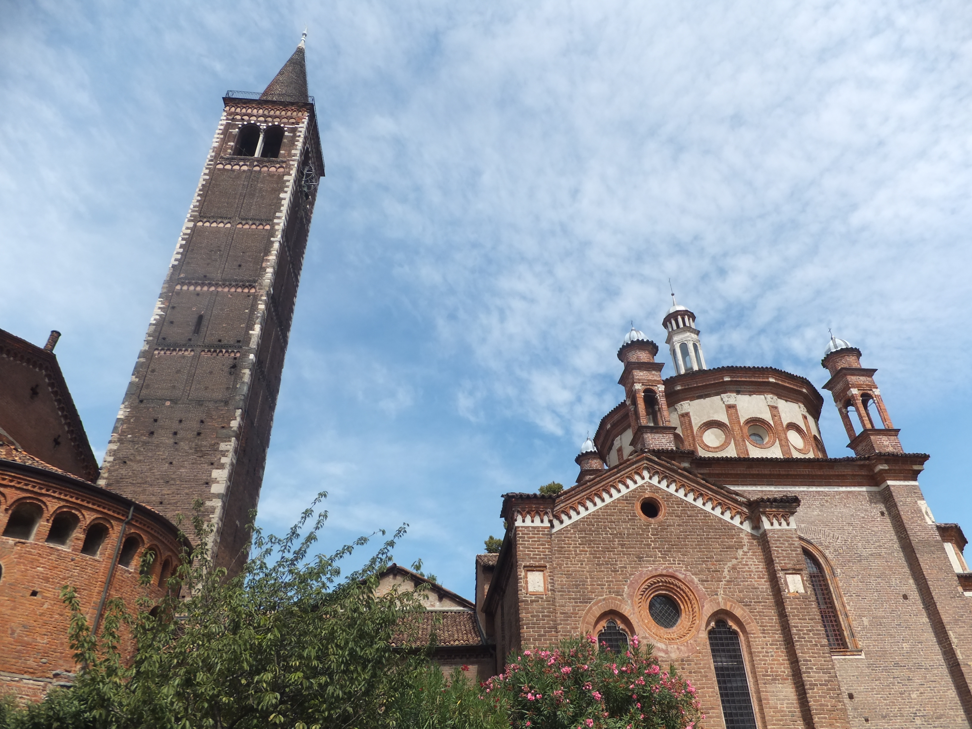 Basilica of Sant'Eustorgio in Milan, Italy